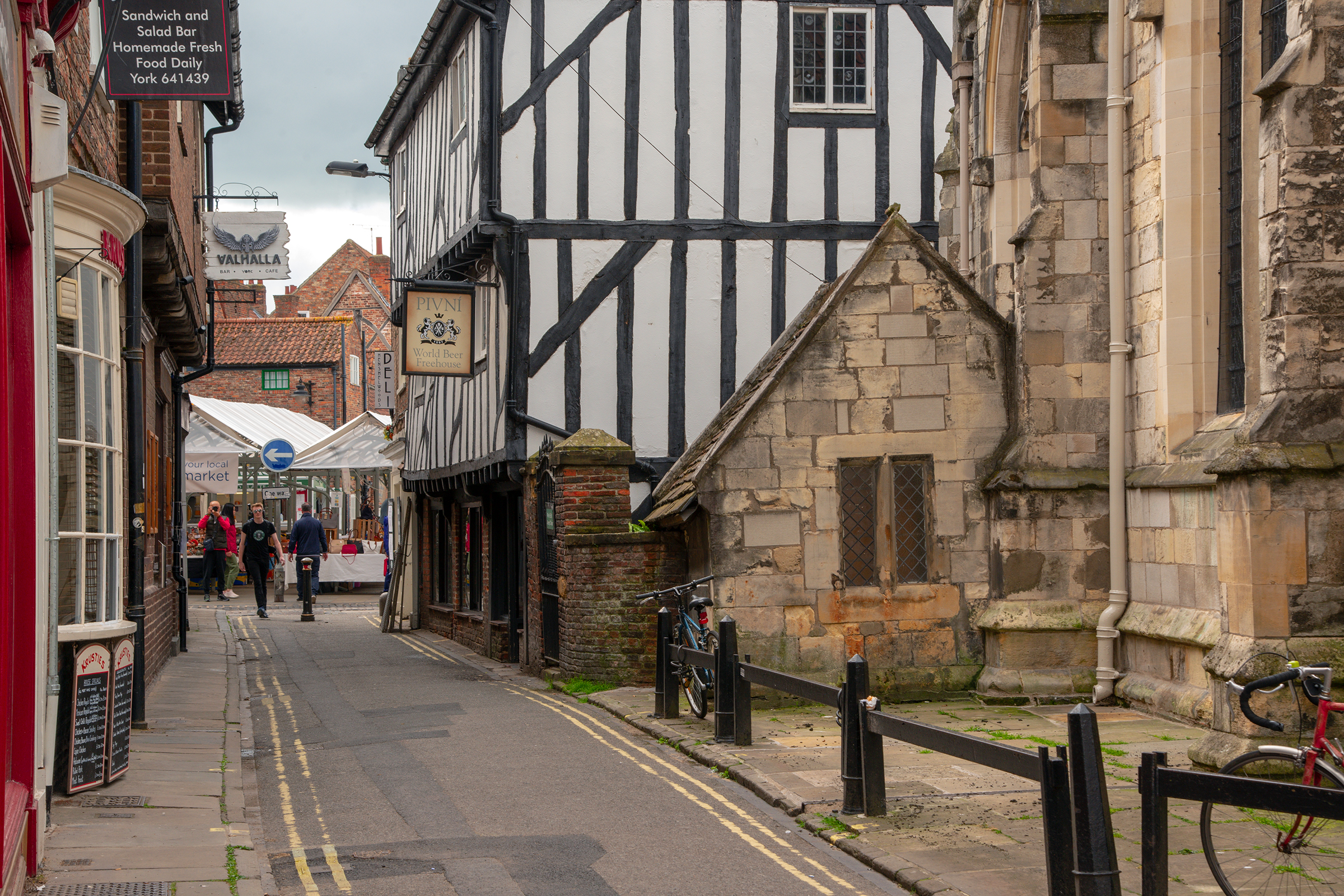 Patrick Pool leading to The Shambles Market, very close to The Shambles, operates daily